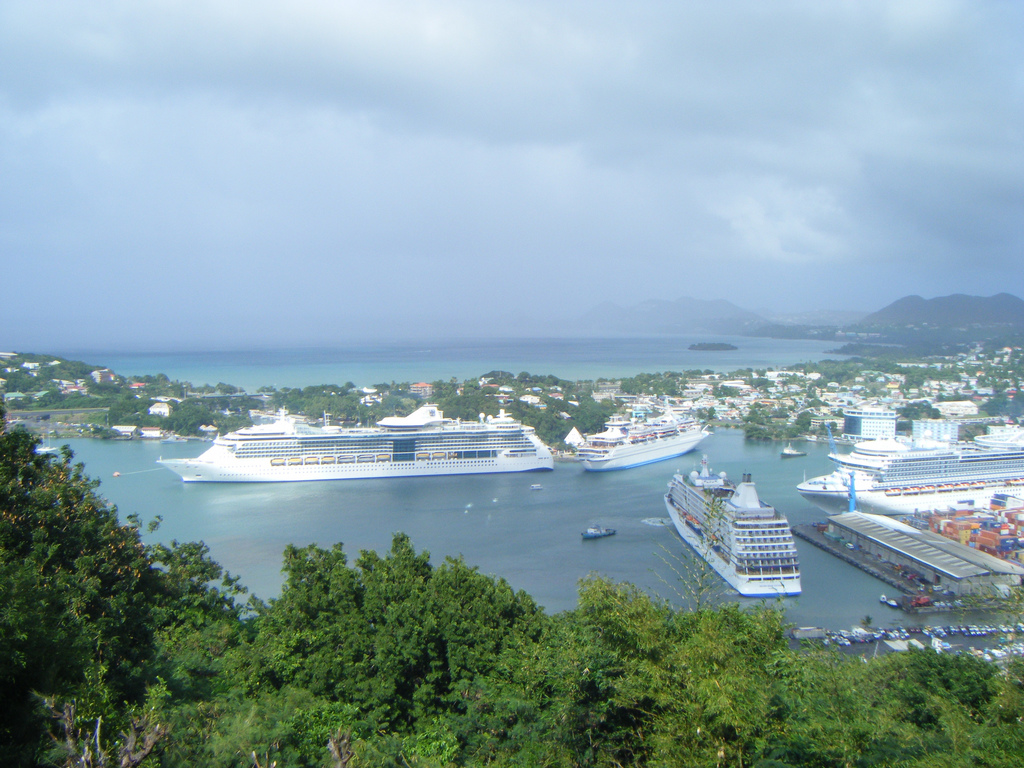 Castries Harbor from Morne Fortune, St Lucia